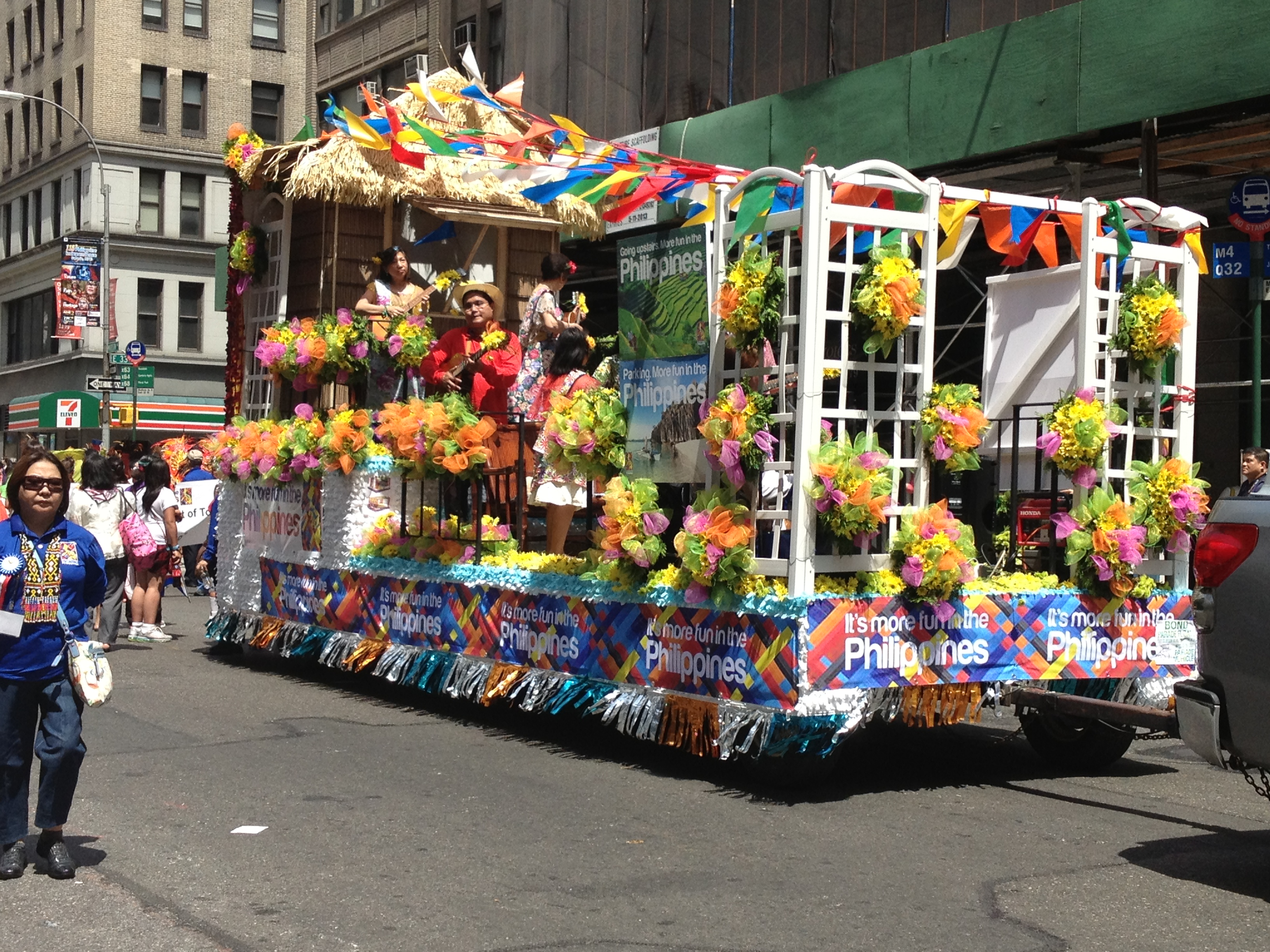 A scene at the Philippine Independence Day Parade 2013 in New York City.